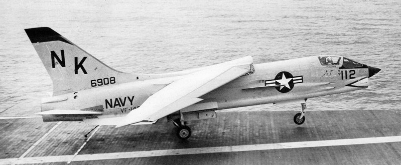 A U.S. Navy Vought F8U-2 Crusader (BuNo 146908) from Fighter Squadron VF-142 Fighting Falcons after a "bolter" aboard the aircraft carrier USS Oriskany (CVA-34). VF-142 was assigned to Carrier Air Group 14 (CVG-14) aboard the Oriskany for a deployment to the Western Pacific from 14 May to 15 December 1960.